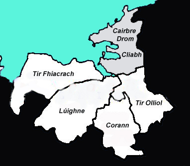 map of territories that made up county sligo as they were in c.1585